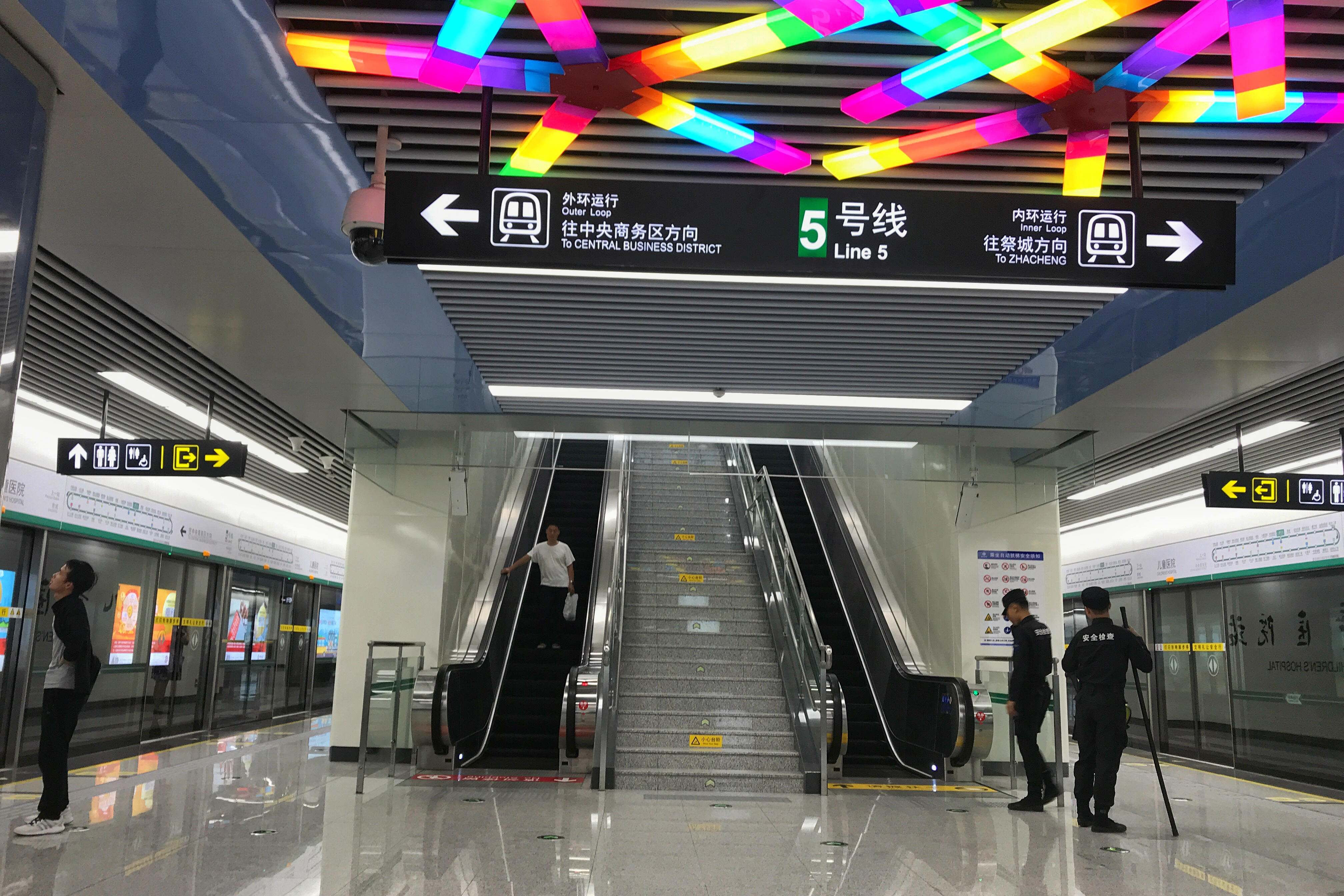 Platform of Children's Hospital Station